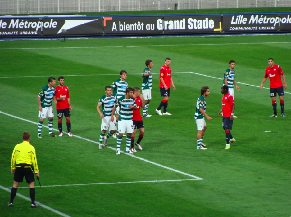 Lille LOSC vs Sporting Lisbon (Europa League)